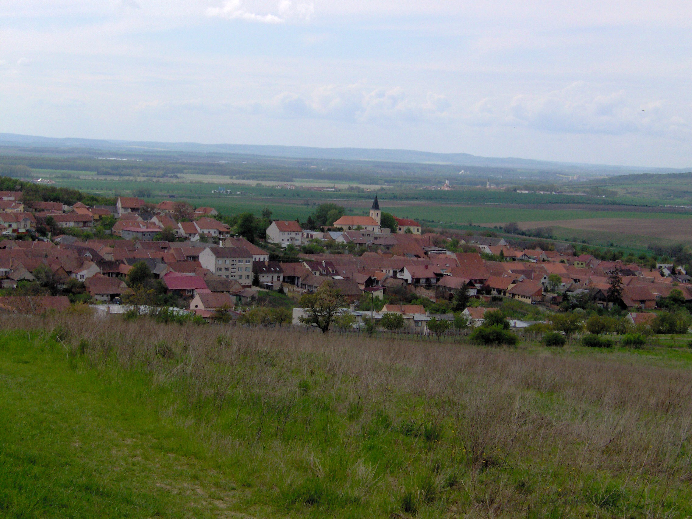 Křepice village, Břeclav District, Czech Republic